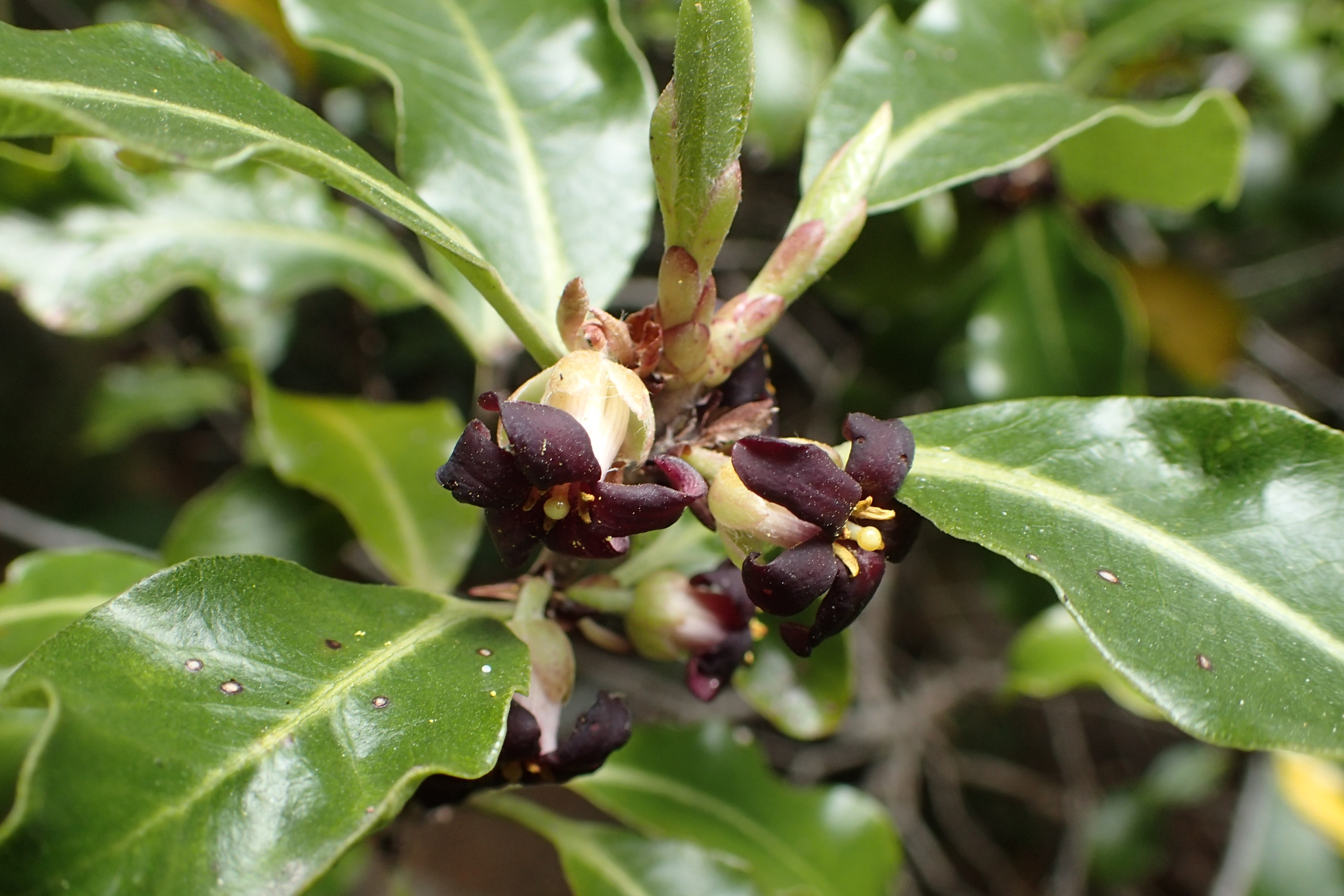 Pittosporum tenuifolium in Aoraki Mt Cook Village, Canterbury (New Zealand)